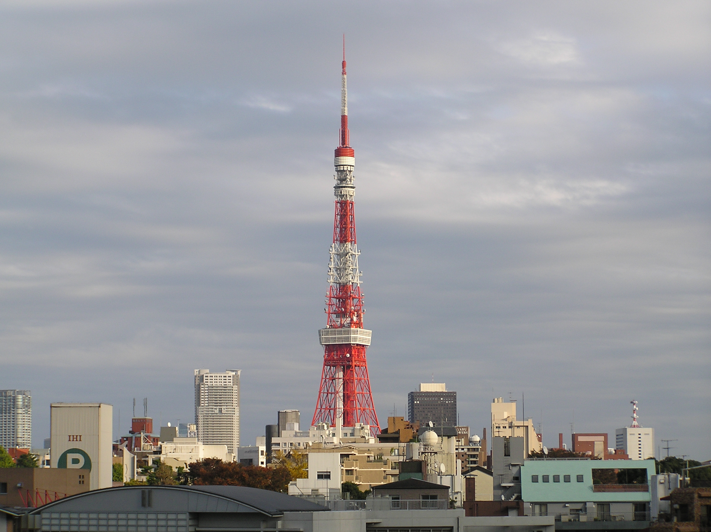 Tokyo Tower from Roppongi